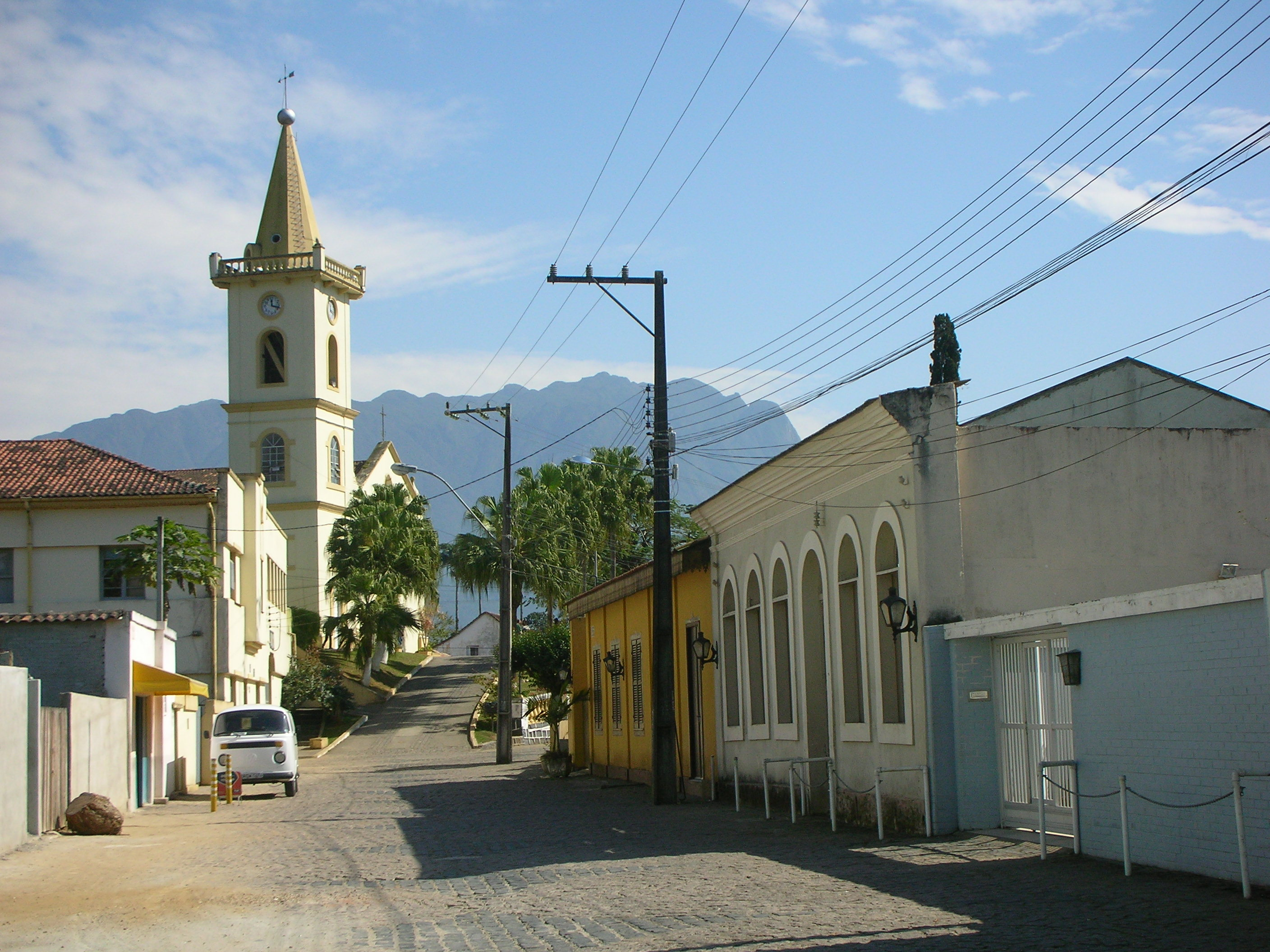 The small town of Morretes, state of Paranà, Brazil.